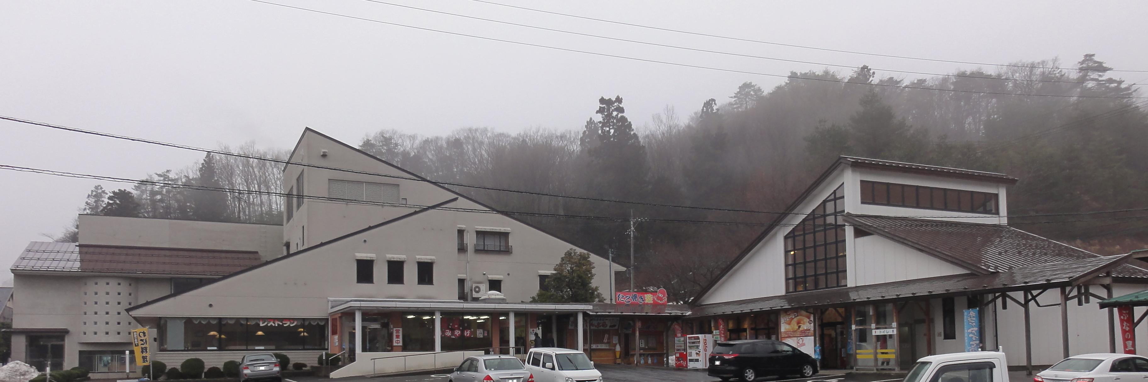 Road to station Tonbara ,Shimane prefecture,Japan